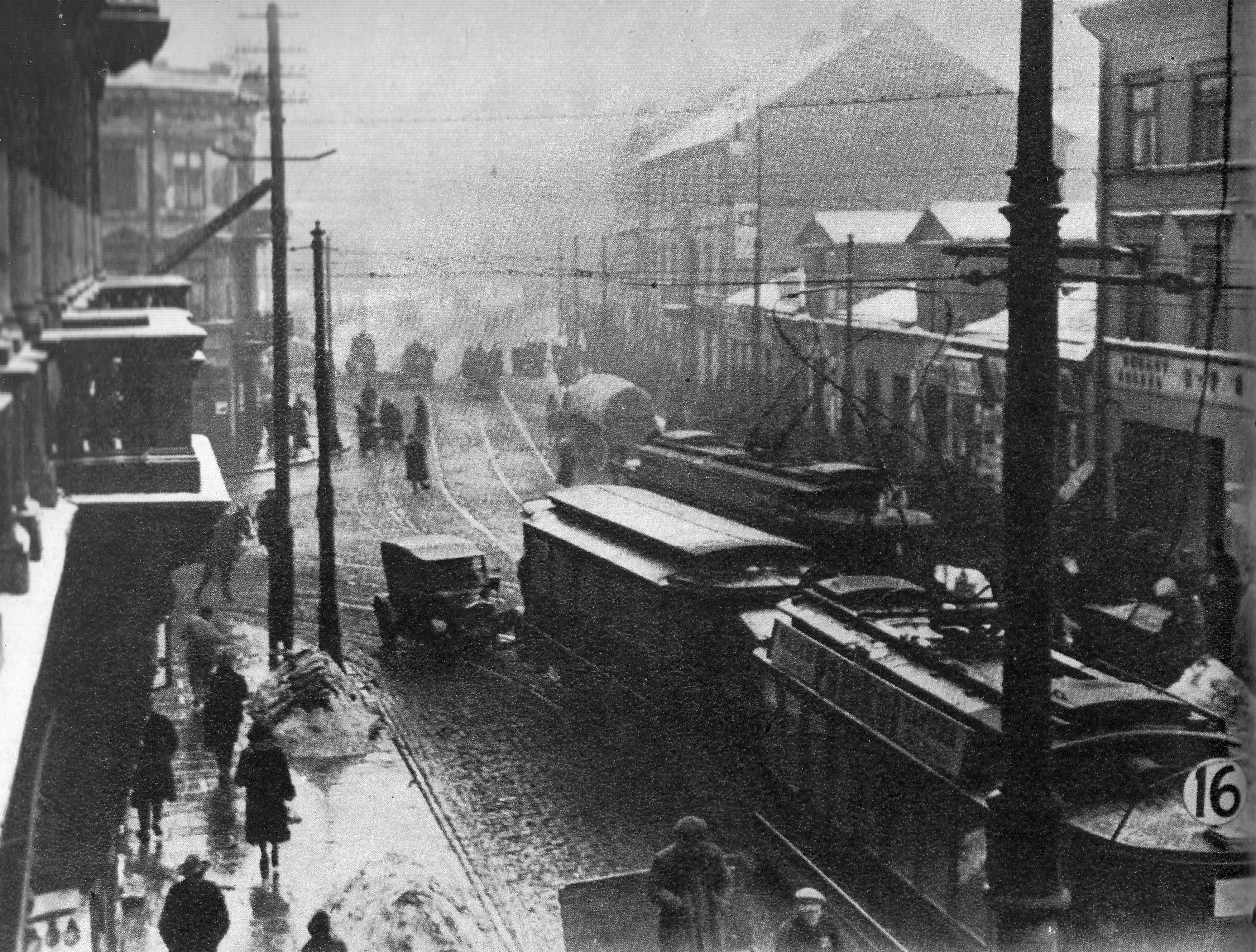 Graniczna Street in Warsaw near Królewska Street